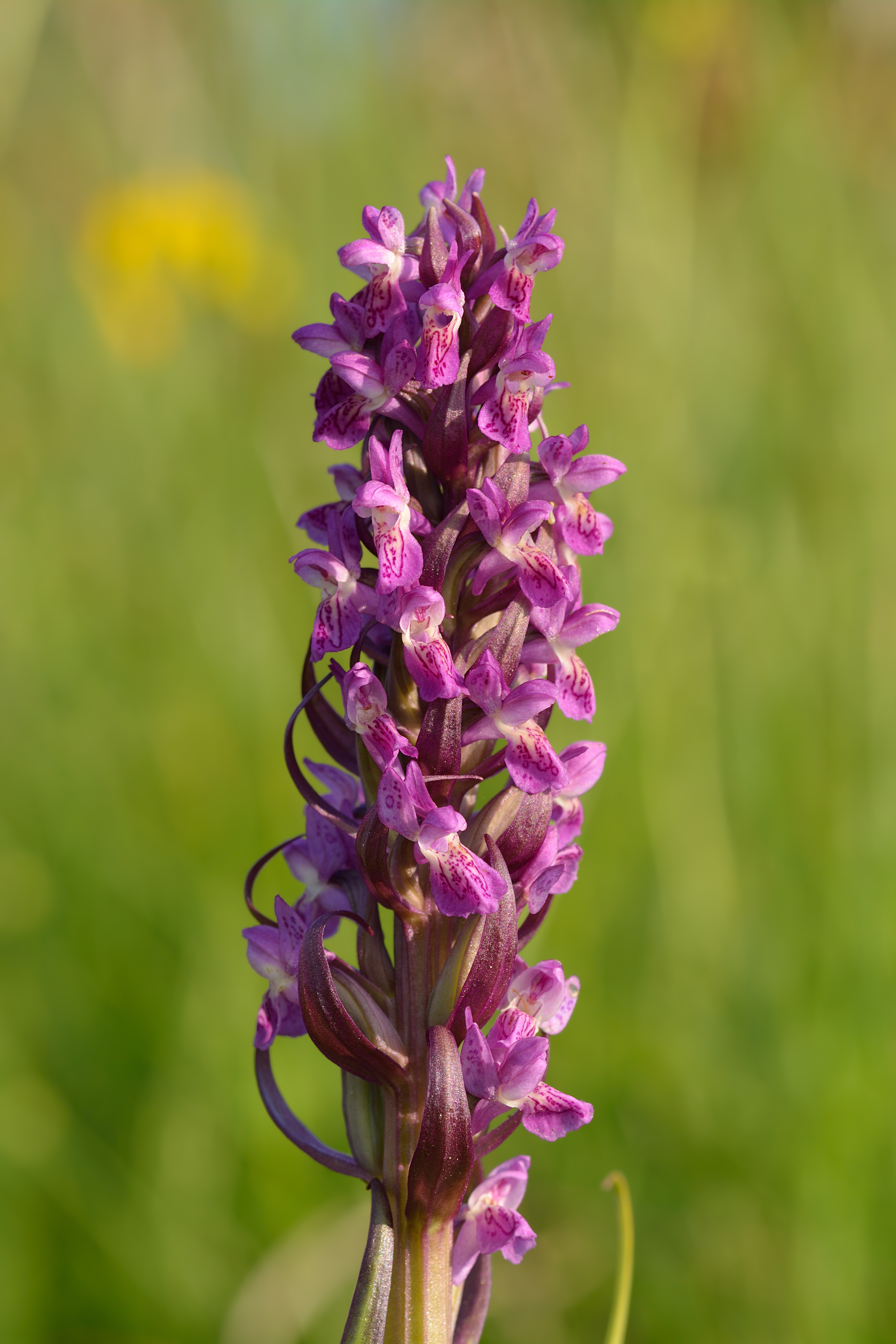 Early Marsh Orchid (Dactylorhiza incarnata) on Pakri Peninsula, Northwestern Estonia. It belongs to the category III of protected species in the country.